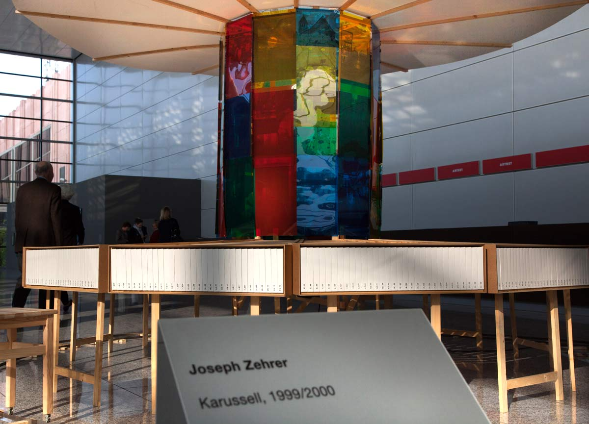 Art installation: "Karussell" 1999/2000 by the German artist Joseph Zehrer. Photographed by Maximilian Schönherr at the Artcologne exhibition 2010.